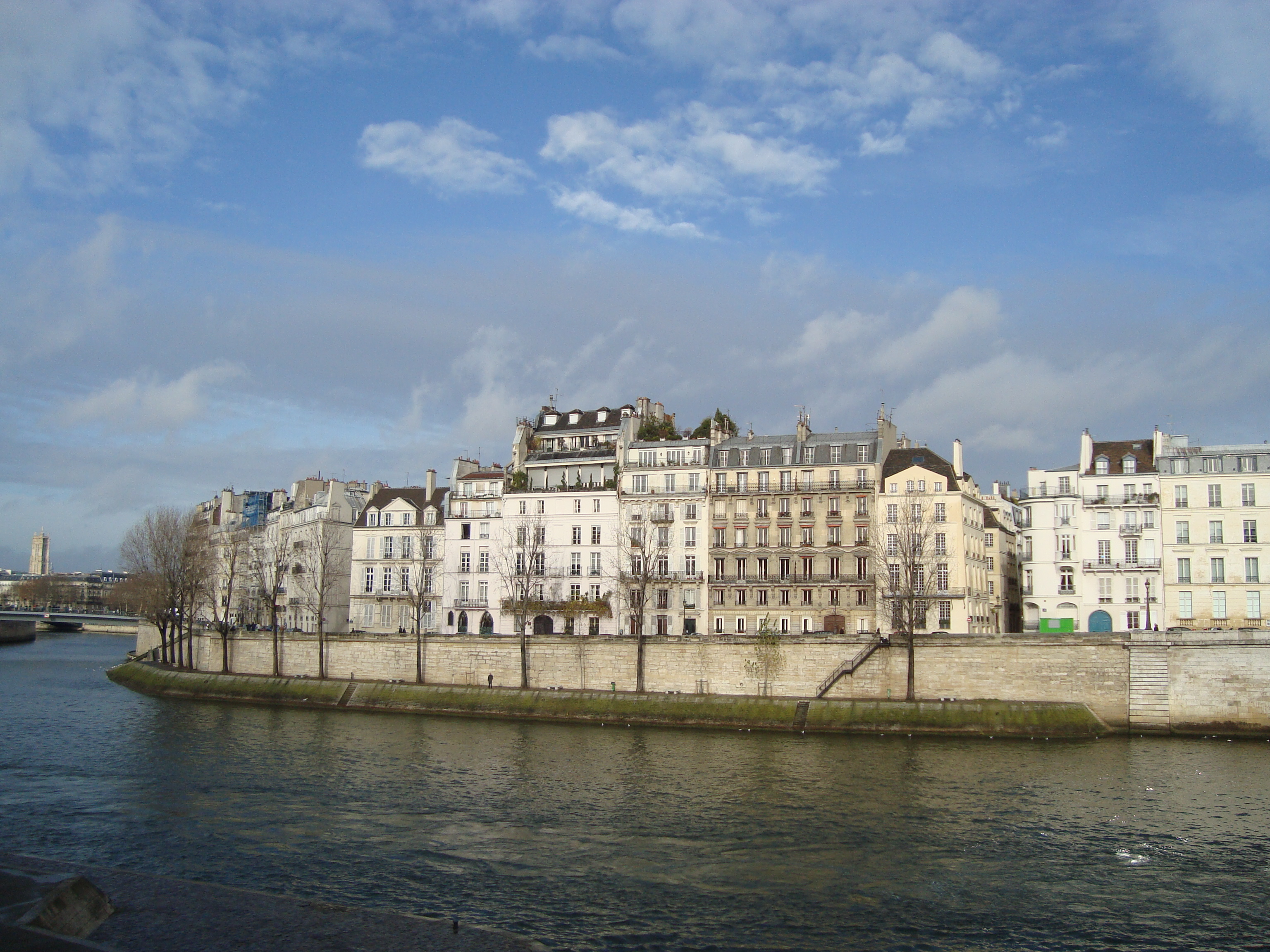 View of the quai d'Orléans in the île Saint-Louis of Paris from the left bank of the Seine